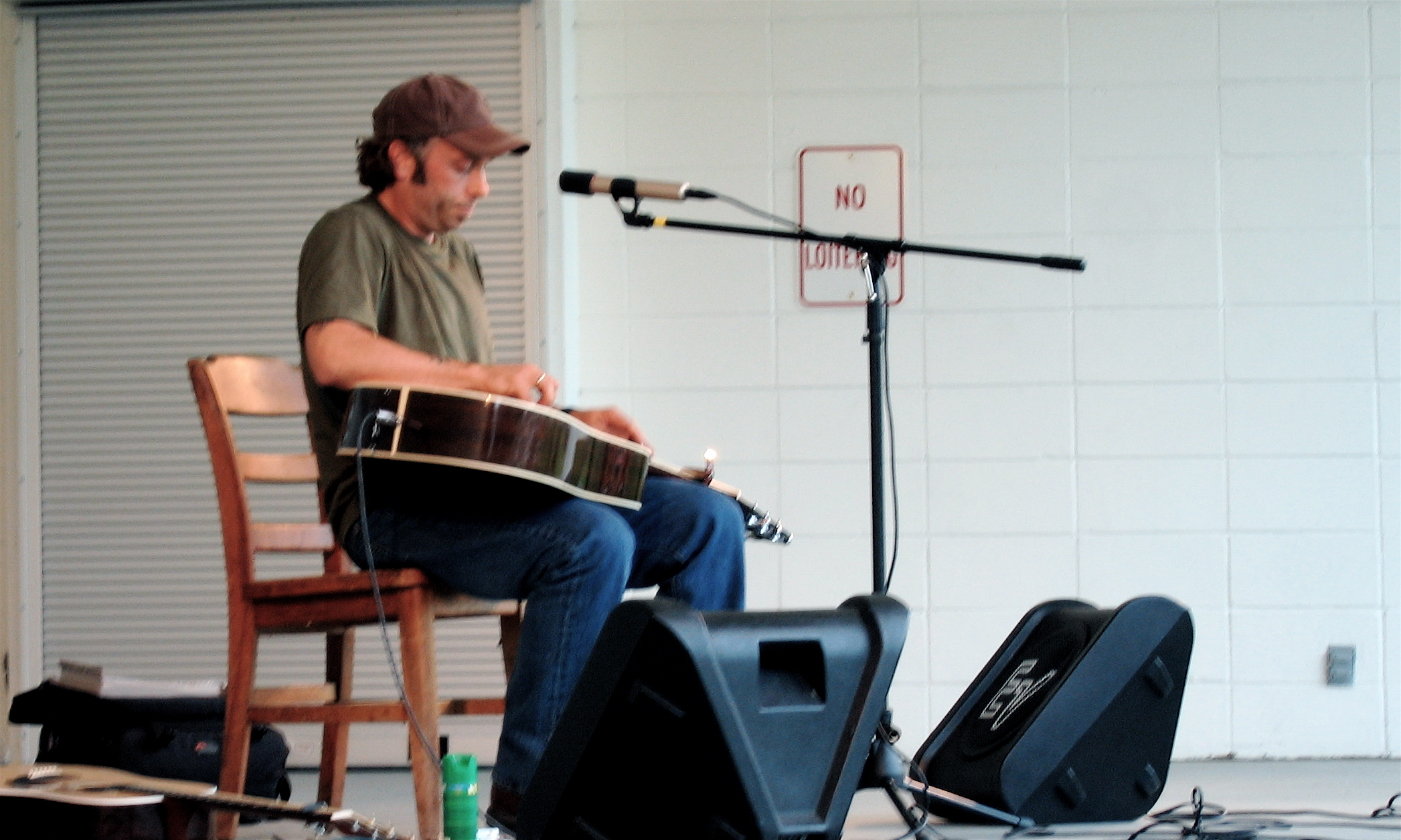 Concert Sunday evening in Norwood.